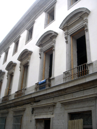 Façade of Palacio of Altamira (Madrid)